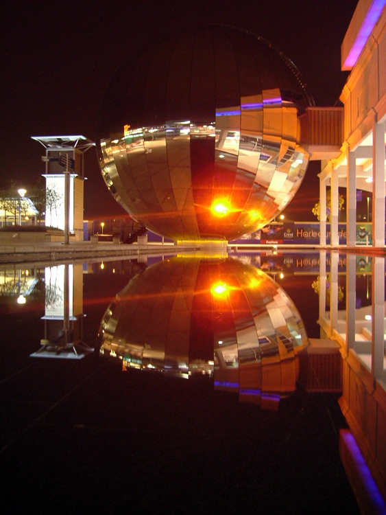 Millenium Square in Bristol at night